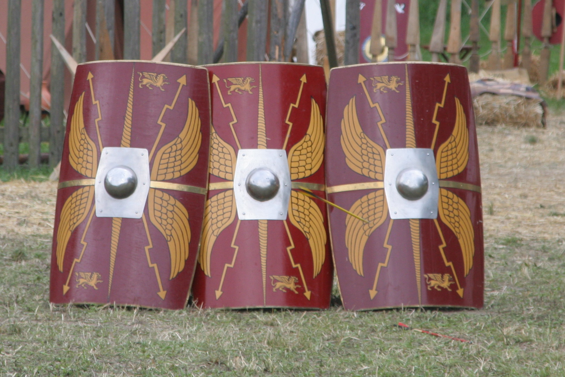 Roman shield (scutum) 70 a.C. There a really three soldiers behind the shields. Look for the arrow. Photographed by myself during a show of Legio XV from Pram, Austria